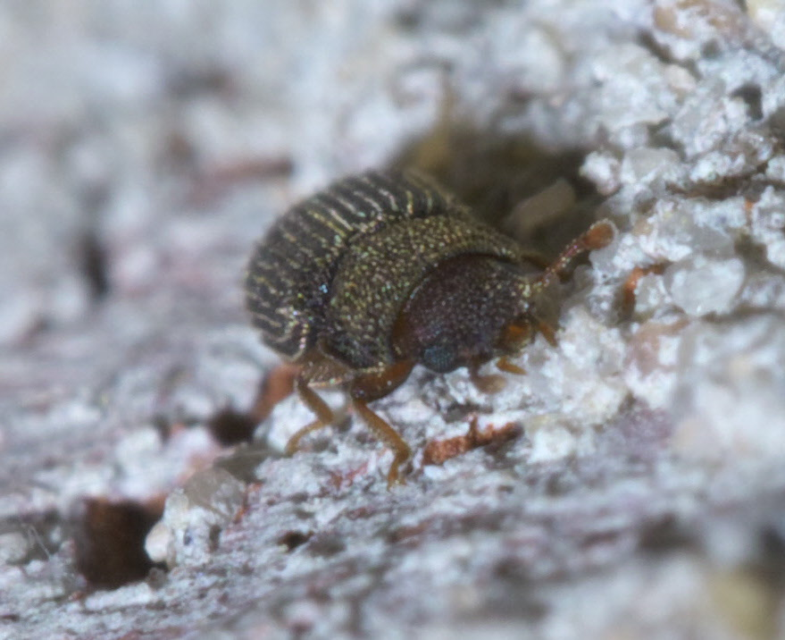 Synchita fuliginosa, Subfamily: Cylindrical Bark Beetles, ID Confidence: 98